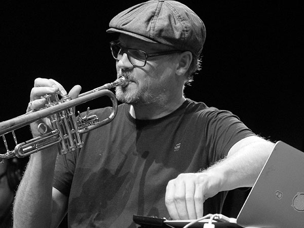 Peter Knight performing with Blood Sweat Drum´n´Bass Big Band in Aarhus Denmark (2014)